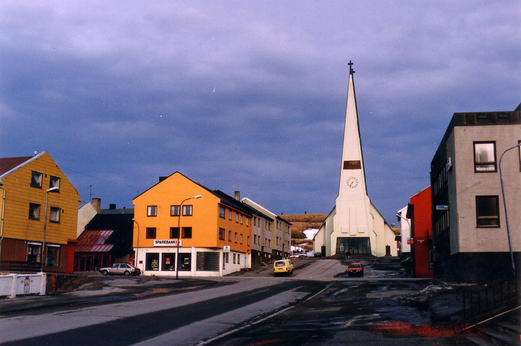 The Kirkegata Street and the church in Vardø, Finnmark, North Norway